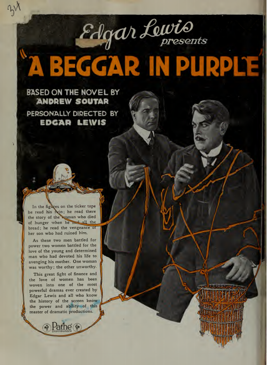 Advertisement for the American drama film A Beggar in Purple (1920) directed by by Edgar Lewis.